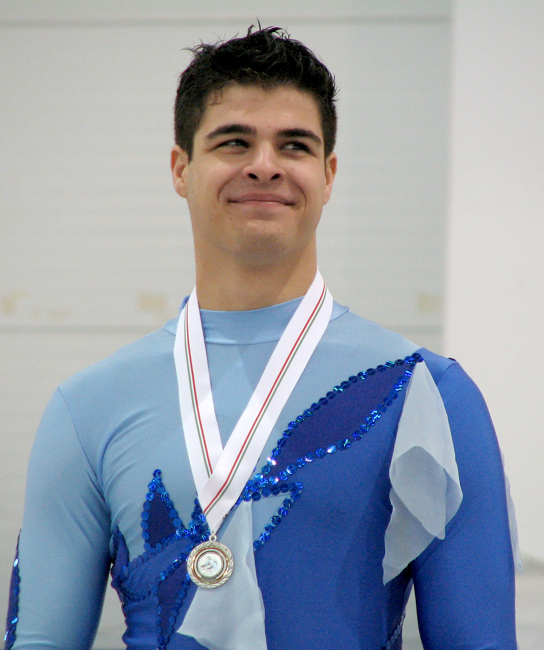 Márk Magyar, Hungarian figure skater at the 2007-2008 Hungarian Championship.